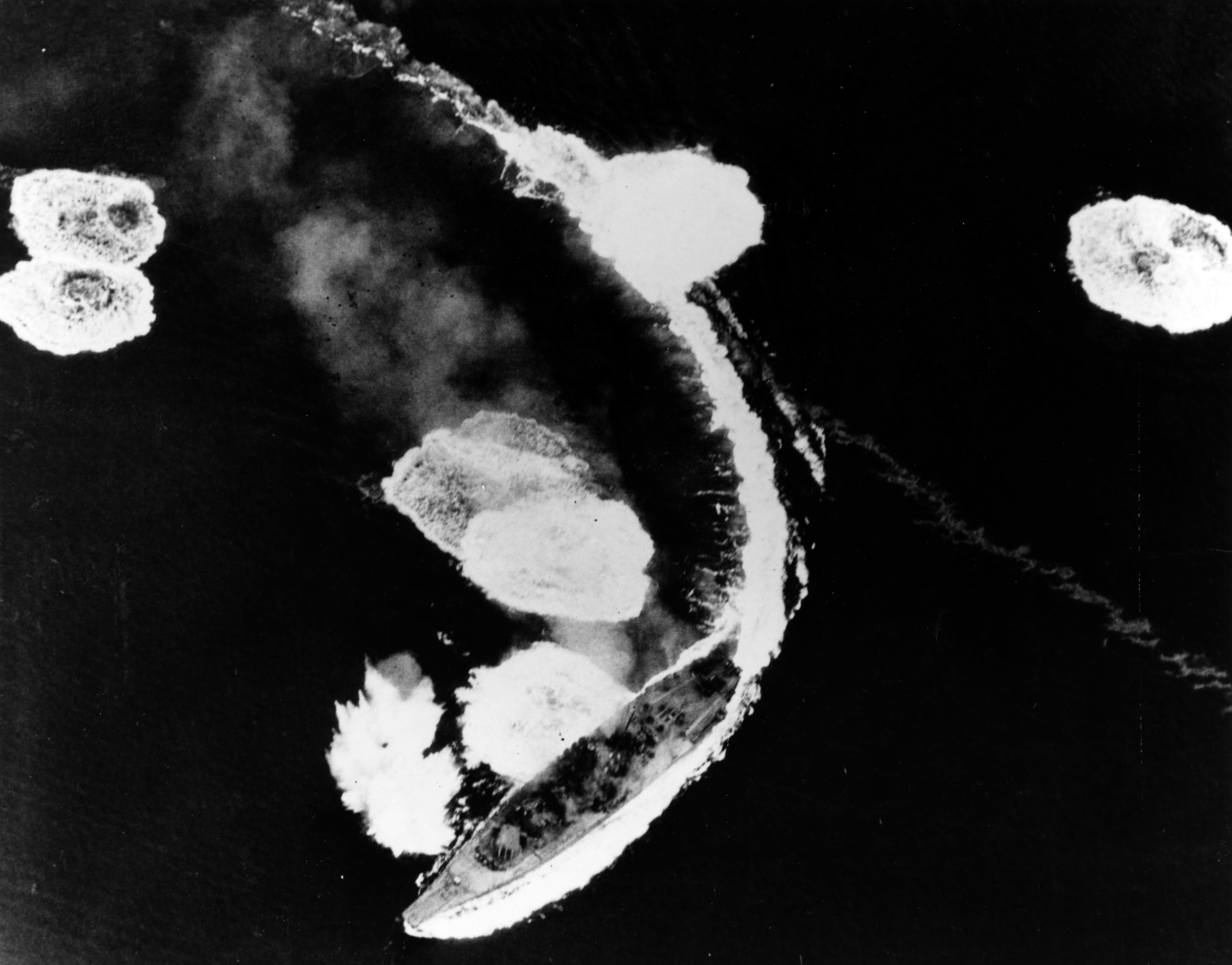 The Japanese battleship Yamato maneuvers while under heavy air attack by U.S. Navy Task Force 58 planes in the Inland Sea off Kure, 19 March 1945. She was not seriously damaged in these attacks. Photographed from a USS Hornet (CV-12) plane.